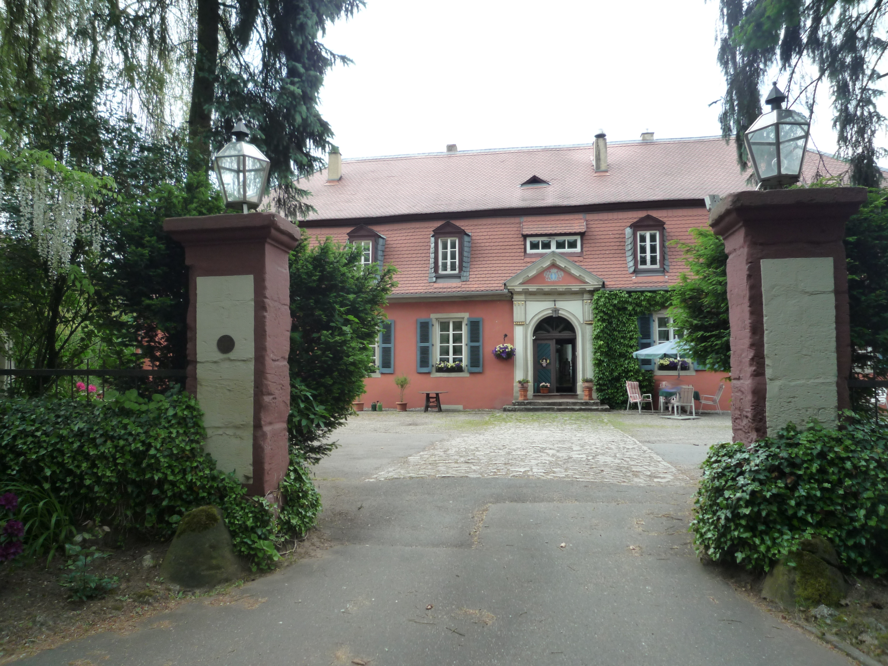 Roter Bau in Niederwürzbach (Blieskastel, Saarland, Germany)